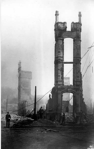 Original photograph by John P. Soule [3]. Subjects (LCTGM): Fires--Washington (State)--Seattle; Buildings--Washington (State)--Seattle Subjects (LCSH): Seattle (Wash.)--Fire, 1889; Puget Sound National Bank; Occidental Hotel